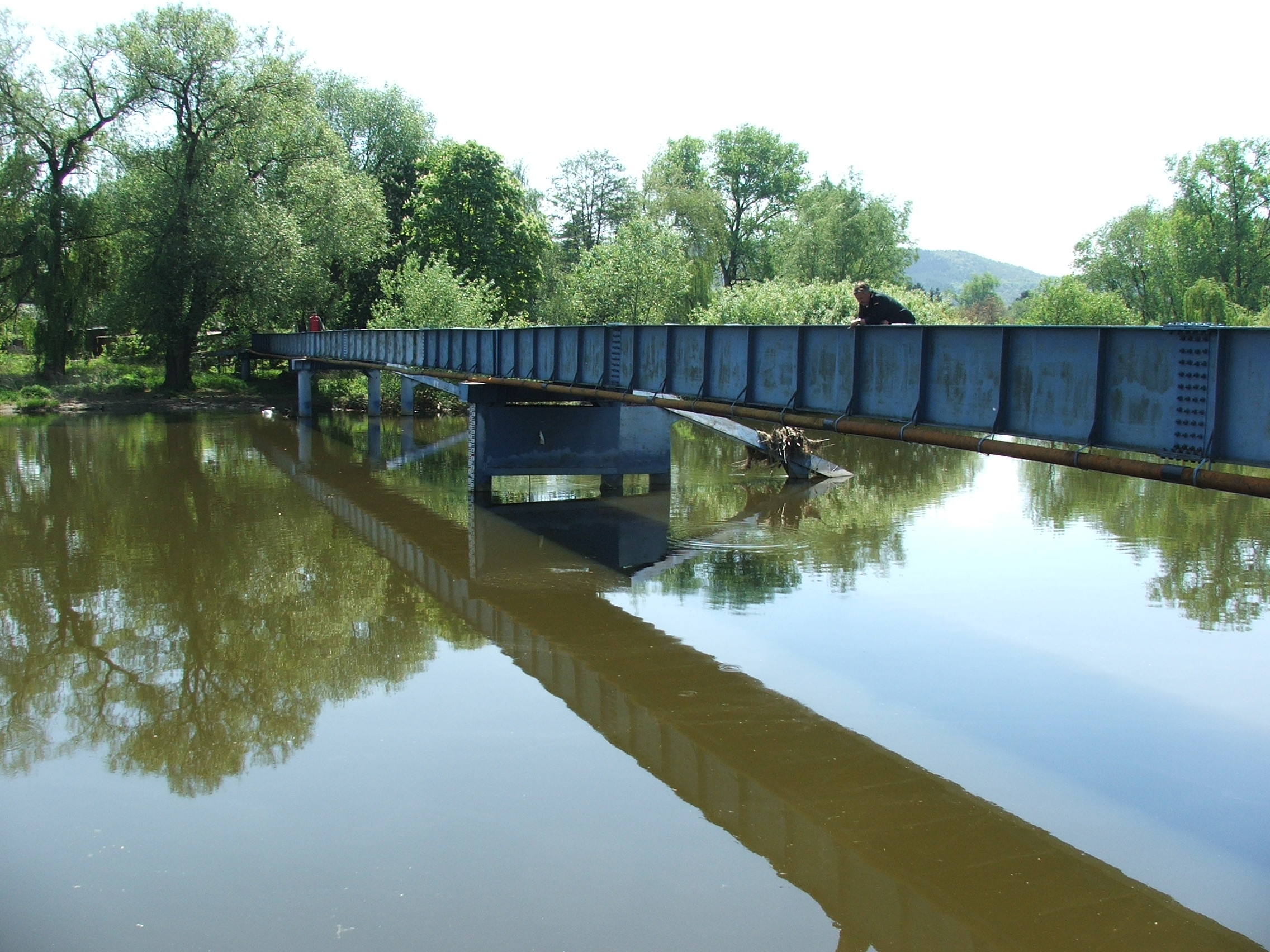 Bridge for pedestrians over Berounka, between Černošice and Prague